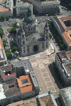 Szent István- bazilika, Hungary, aerial photography